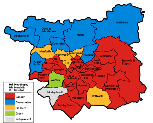 Ward map of Leeds City Council with political colouring for the 2002 election.